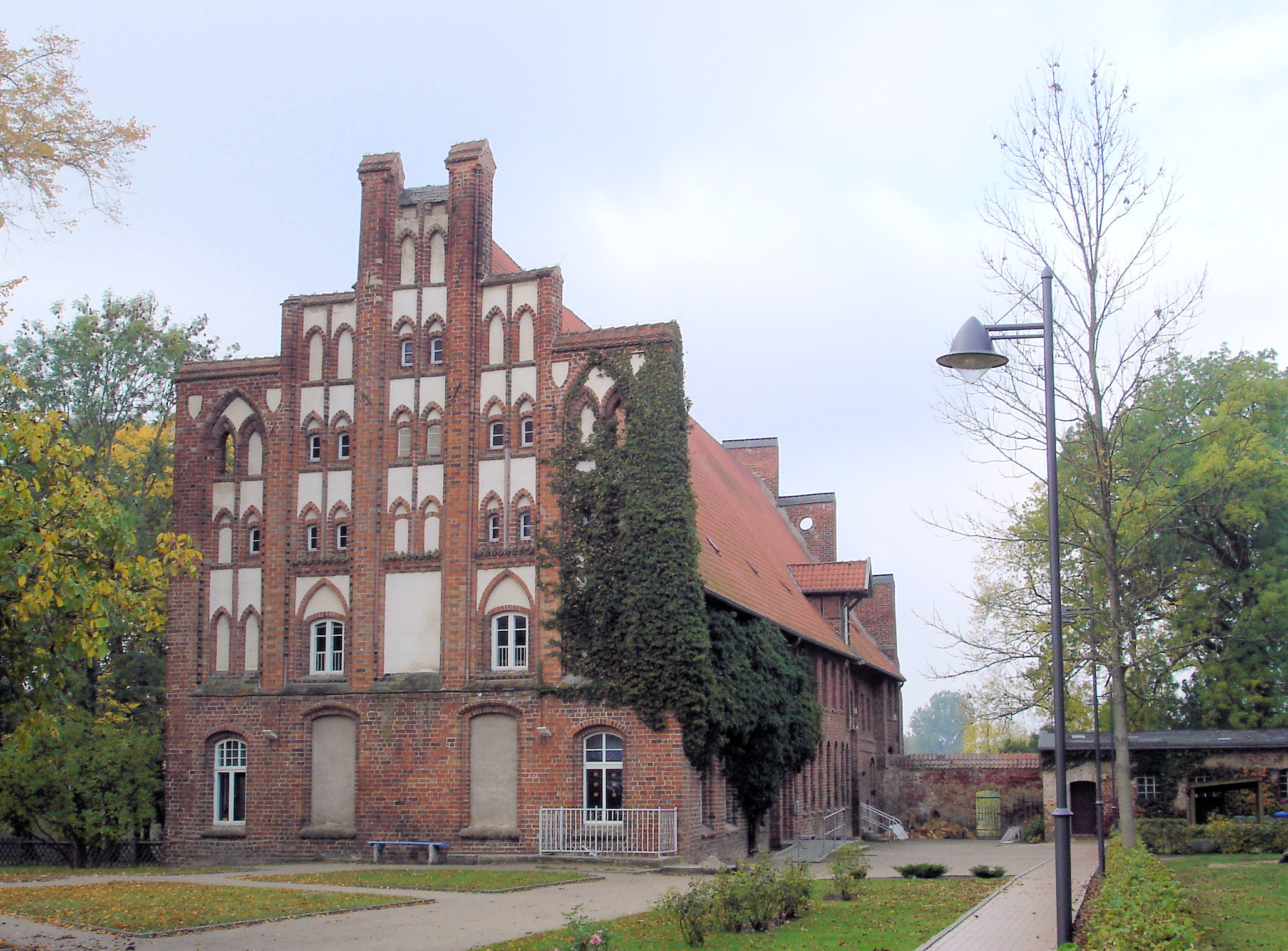 house of the monastery Neukloster, Mecklenburg, Germany